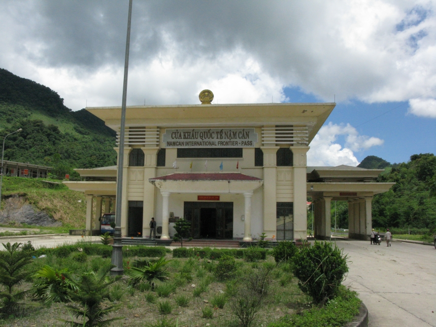 Nam Can International Border Gate, Nam Can Commune, Ky Son District, Nghe An Province, Viet Nam.